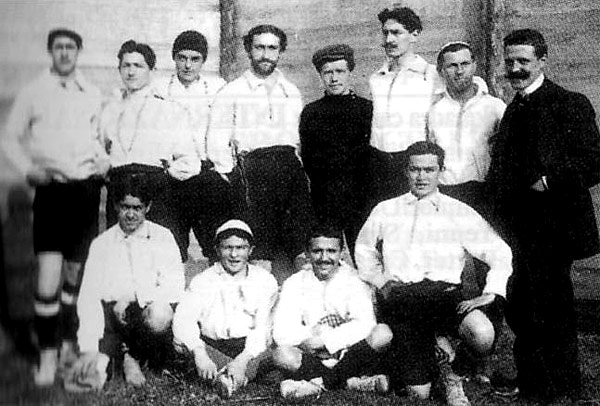 Italian Football Champion 1908 (SG Pro Vercelli) From Left to Right: Back: Romussi, Angelo Binaschi, Guido Ara, Marcello Bertinetti, Giovanni Innocenti, Giuseppe Milano I, Pietro Leone, ? Front: Felice Milano II, Vincenzo Celoria, Annibale Visconti, Carlo Rampini I.